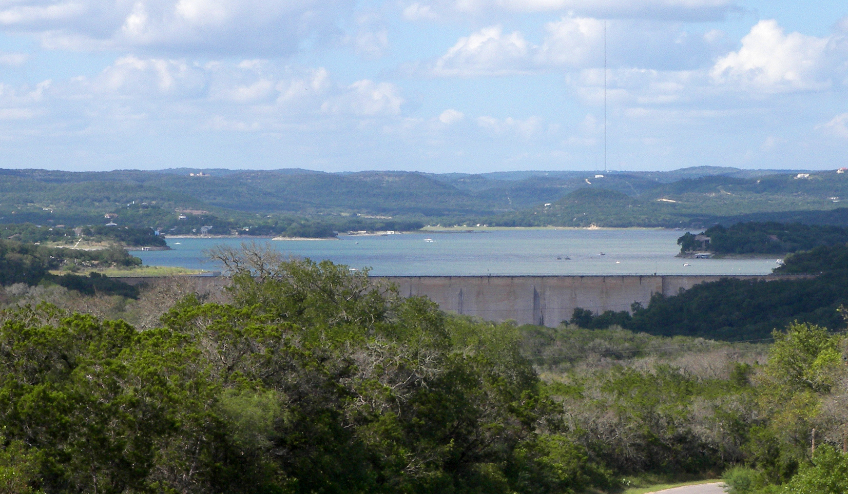 Medina Lake located in northeastern Medina County, Texas, United States.